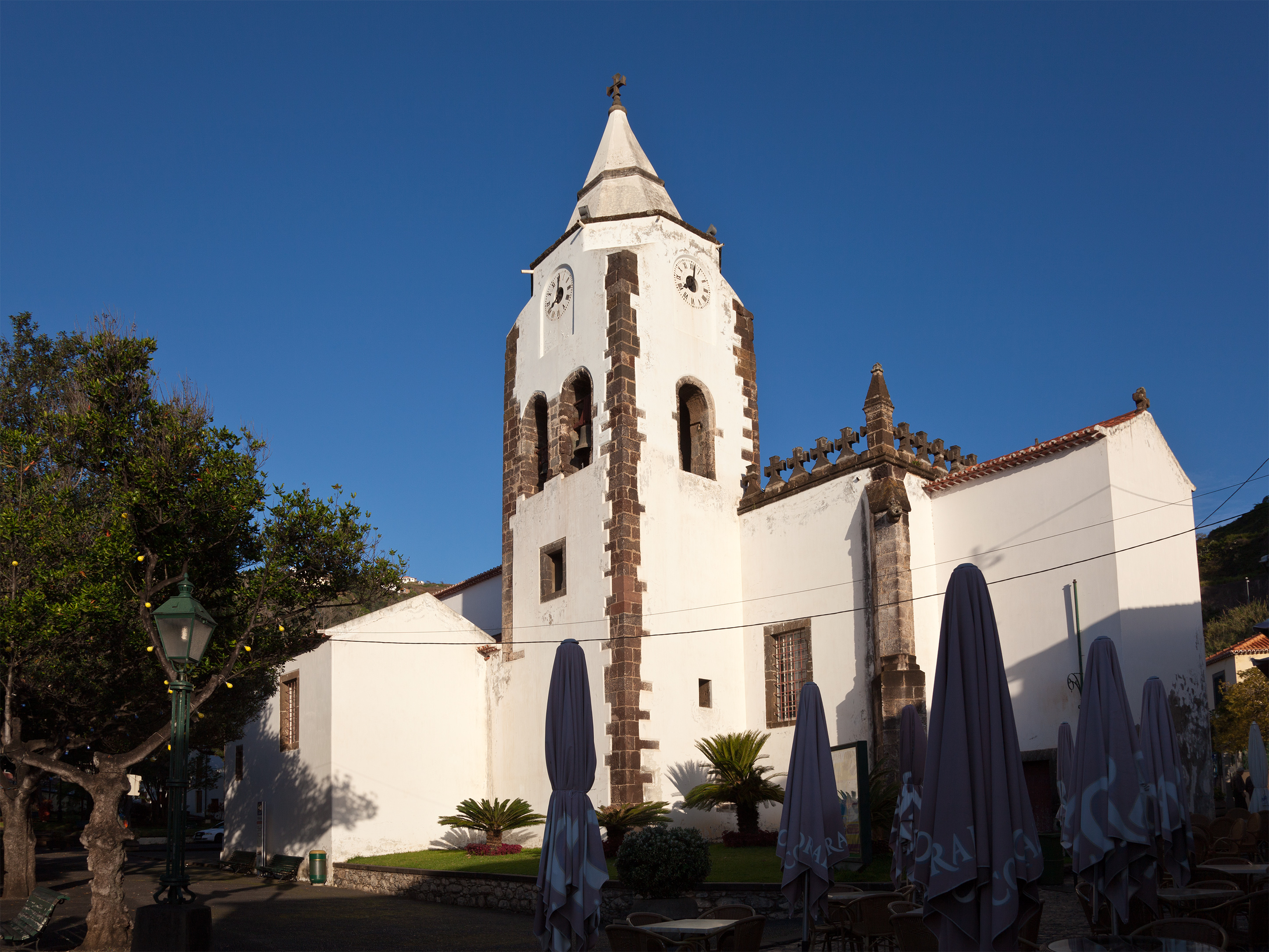 Igreja de São Salvador (Santa Cruz, Madeira)